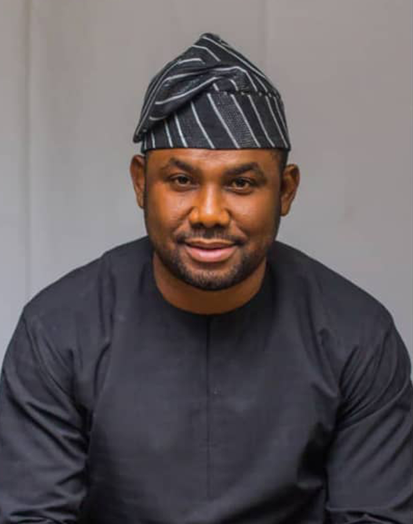 Picture of Lekan Fatodu, Senior Special Assistant on Sustainable Development Goals to Lagos State Governor His Excellency Babajide Sanwo-Olu.